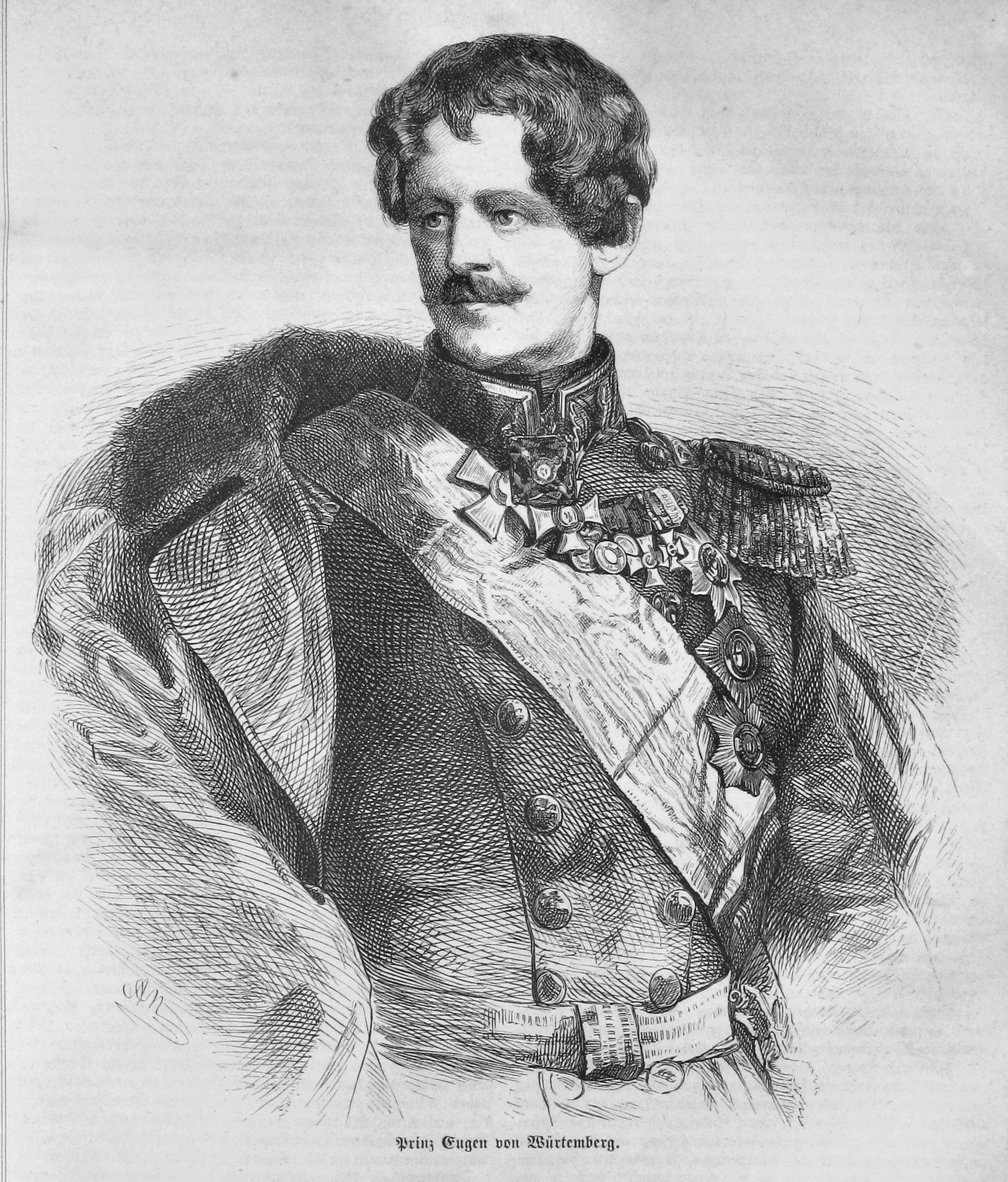 caption: "Prinz Eugen von Würtemberg."